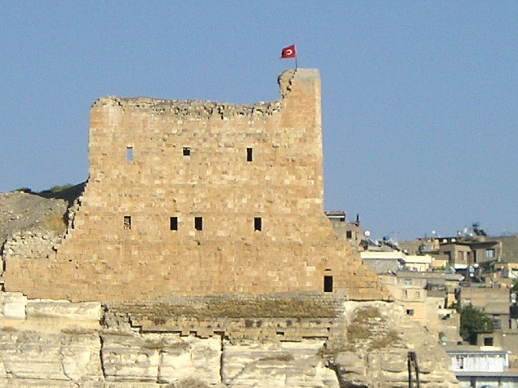 Castle of Birecik, Turkey